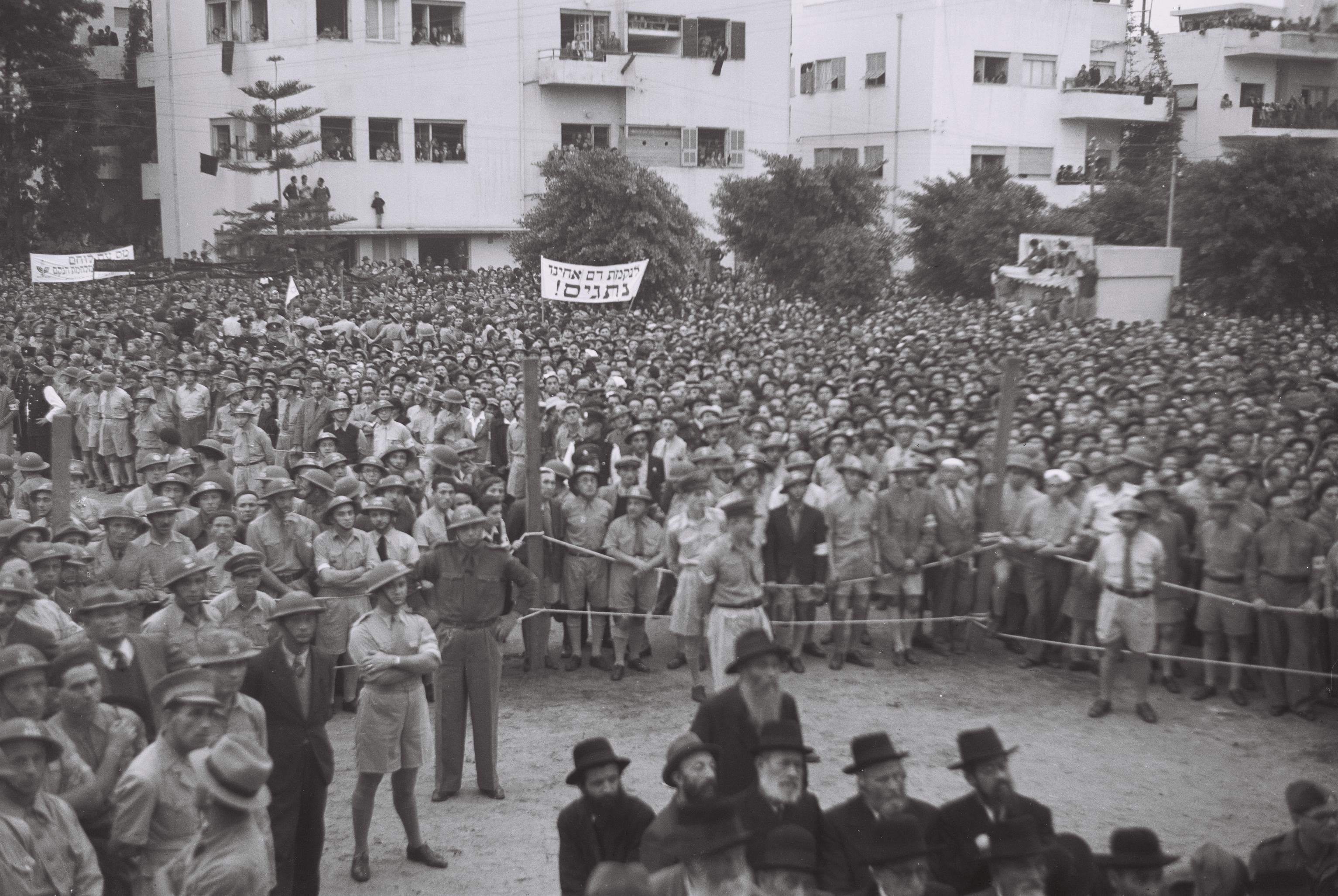 A rally in Tel Aviv honoring Holocaust victims.